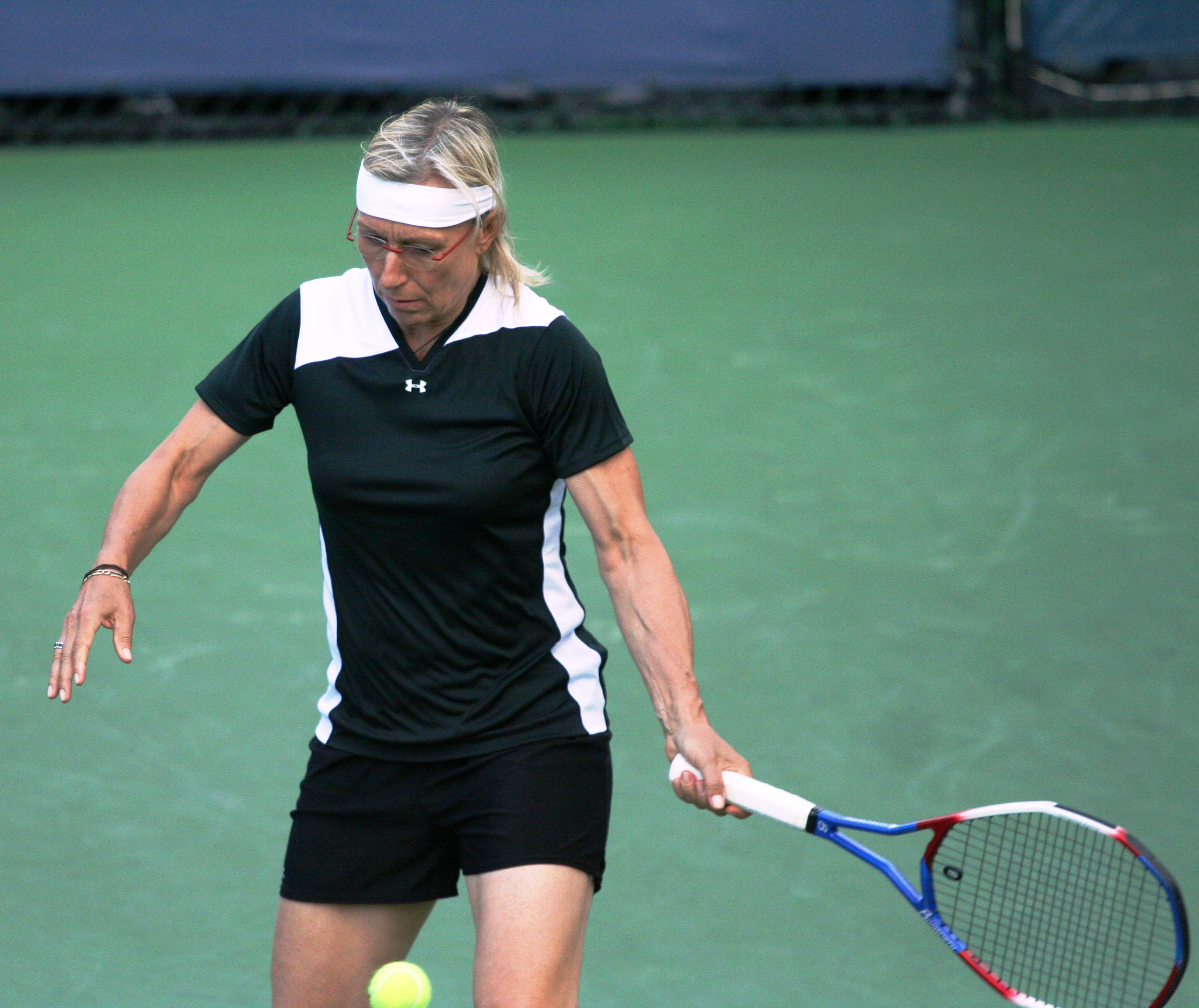 U.S. Open Champions Team Tennis Thursday, Sept. 9, 2010